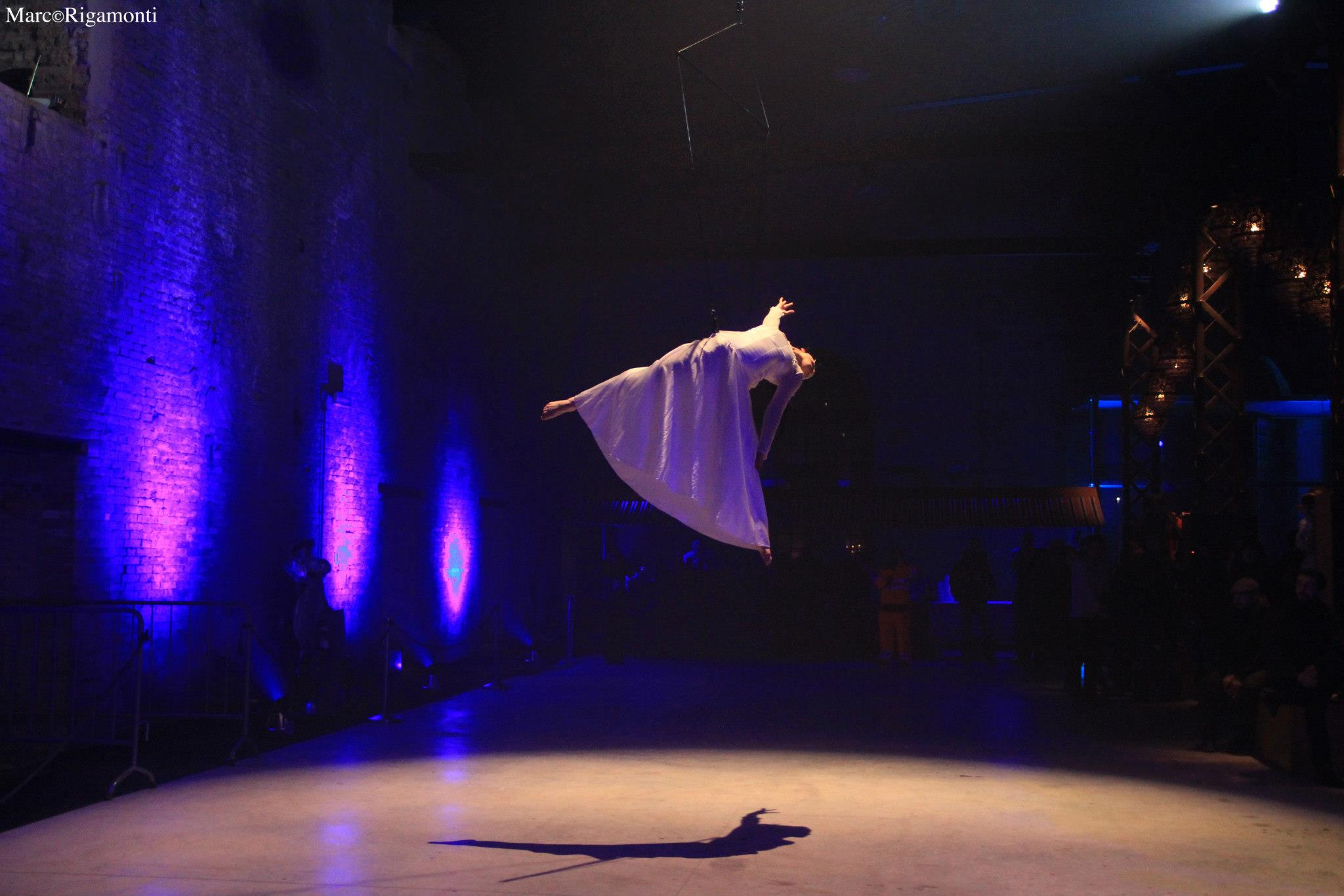 Aerial Dance performance by Cafelule - - Venice Carnival 2014